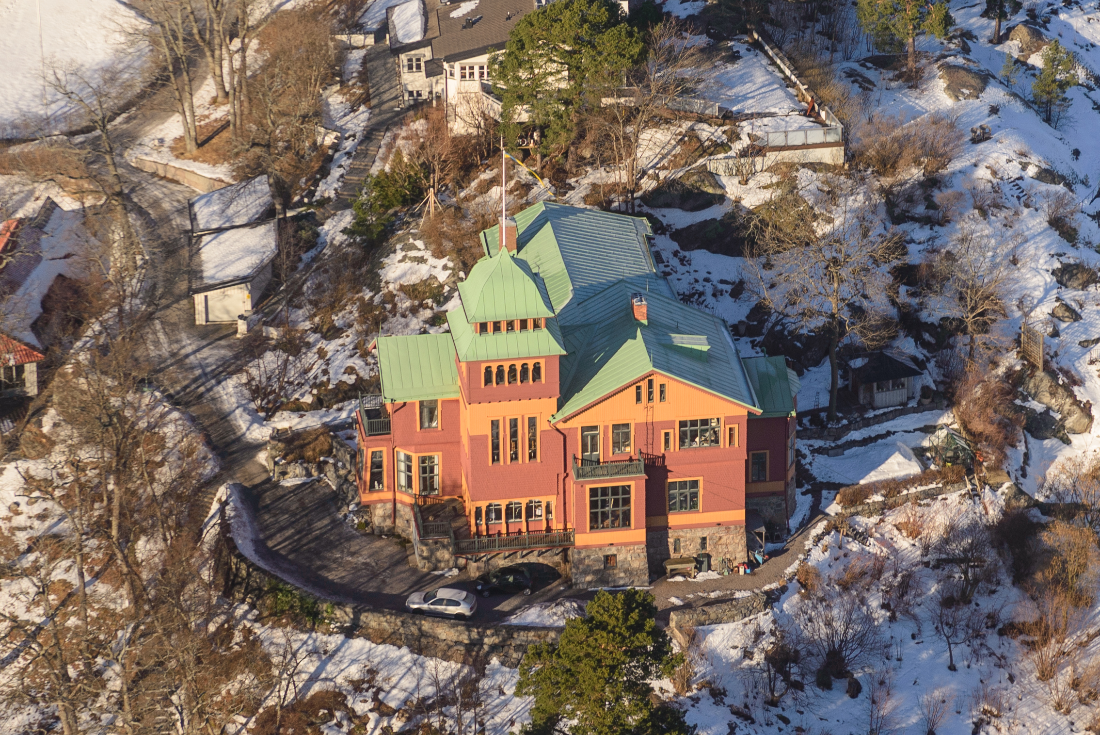 Grünewaldvillan, Saltsjöbaden.